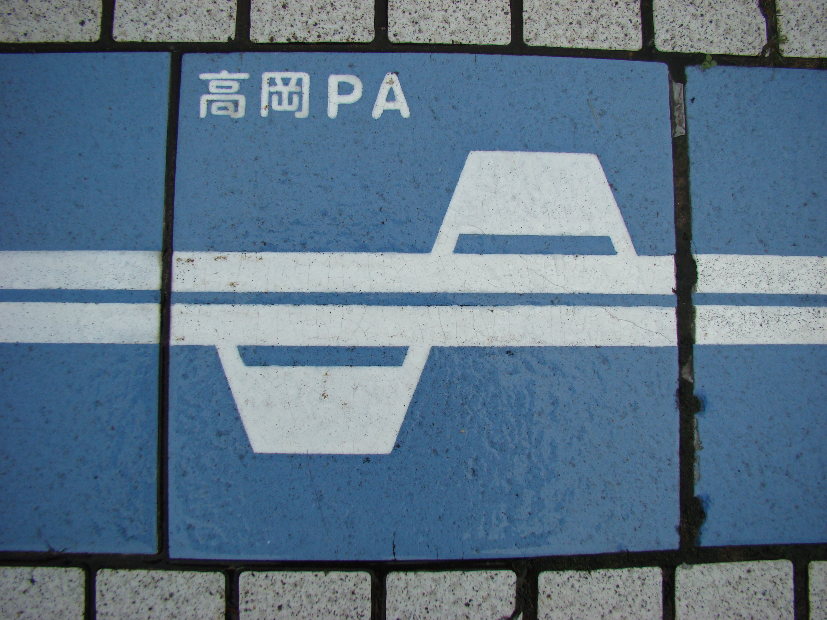 The tile which designed a shape of the Takaoka Parking Area（Hokuriku Expressway）（There is this tile in Hokuriku Expressway Nadachi-Tanihama Service Area.）. Place - Chayagahara,Joetsu City,Niigata Prefecture,Japan Date - August 9, 2009 Format - JPEG, 3264x2448pixel, 24bit colors. Photographer - NALA Wiki (talk)